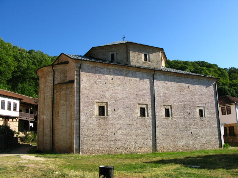 Orthodox monastery Bogorodica Prečista, near Kičevo, Makedonija.